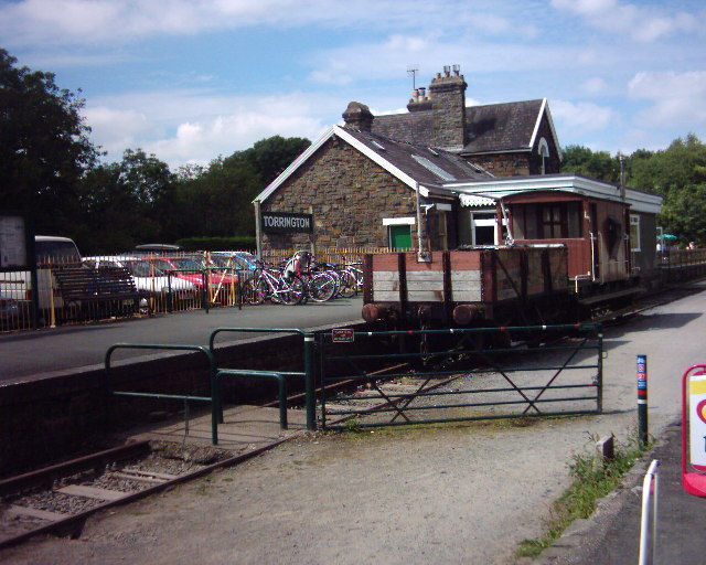 Former Torrington railway station, Devon, England. On the Tarka Trail, the former railway station is now used for refreshments and cycle hire.